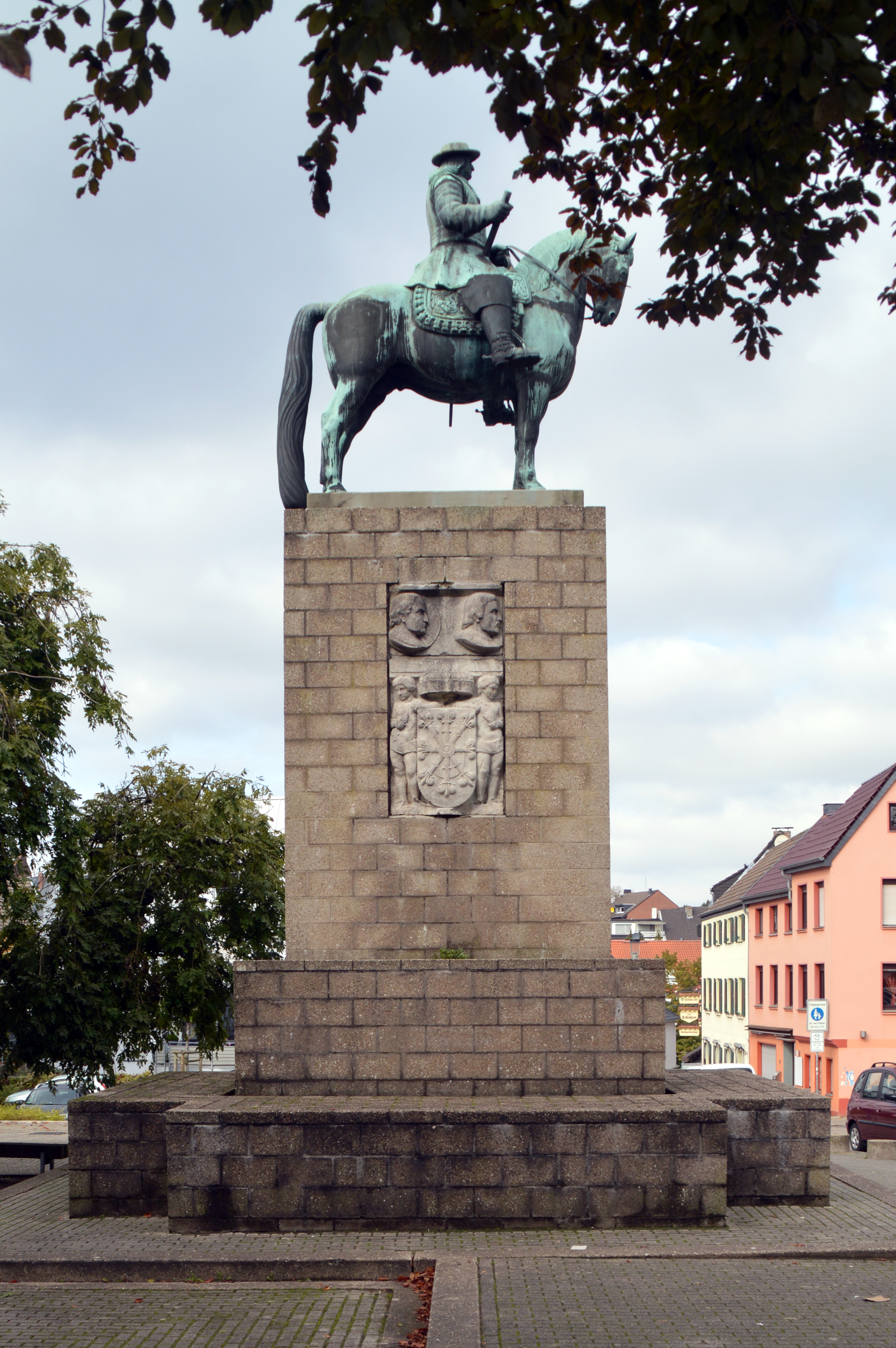 Equestrian statue of the Great Elector Frederick William I by Peter Breuer in Kleve. Erected in celebration of the 300th anniversary of Kleve's inclusion within the Electorate of Brandenburg, and unveiled on August 9, 1909, by Kaiser William II. Present site: at the royal stables before the Schwanenburg. Original site: at the Kleiner Markt.